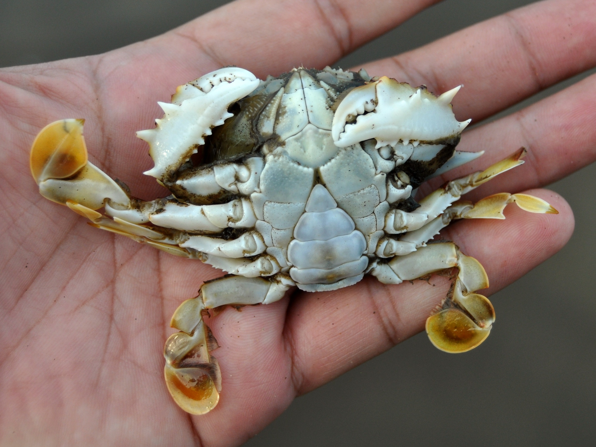 Moon crabs, Matuta victor, female 39mm CW (carapace width, without lateral spines); from Cilacap southern coast of Central Java, Indonesia.